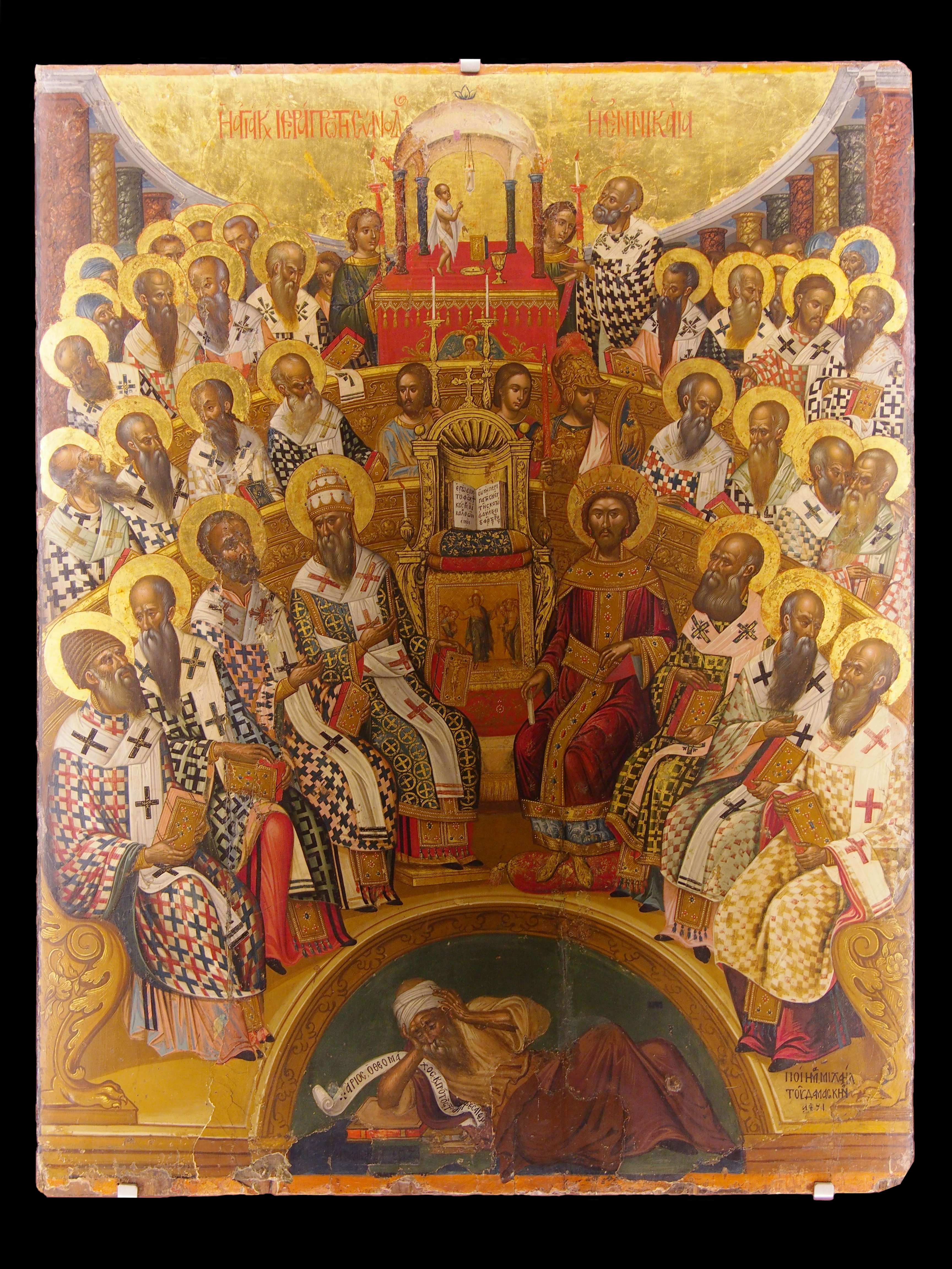 The First Council of Nicea by Michael Damaskinos (1591). From Vronitissiou monastery, now housed in Agia Collection, Heraklion